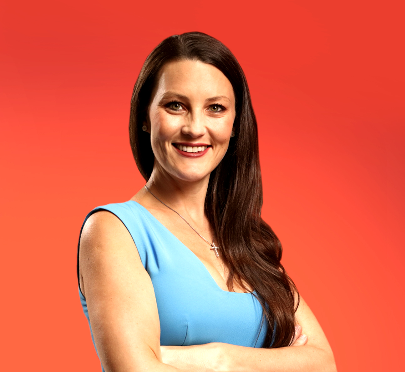 Posed headshot of UKFast founder and business person Gail Jones.